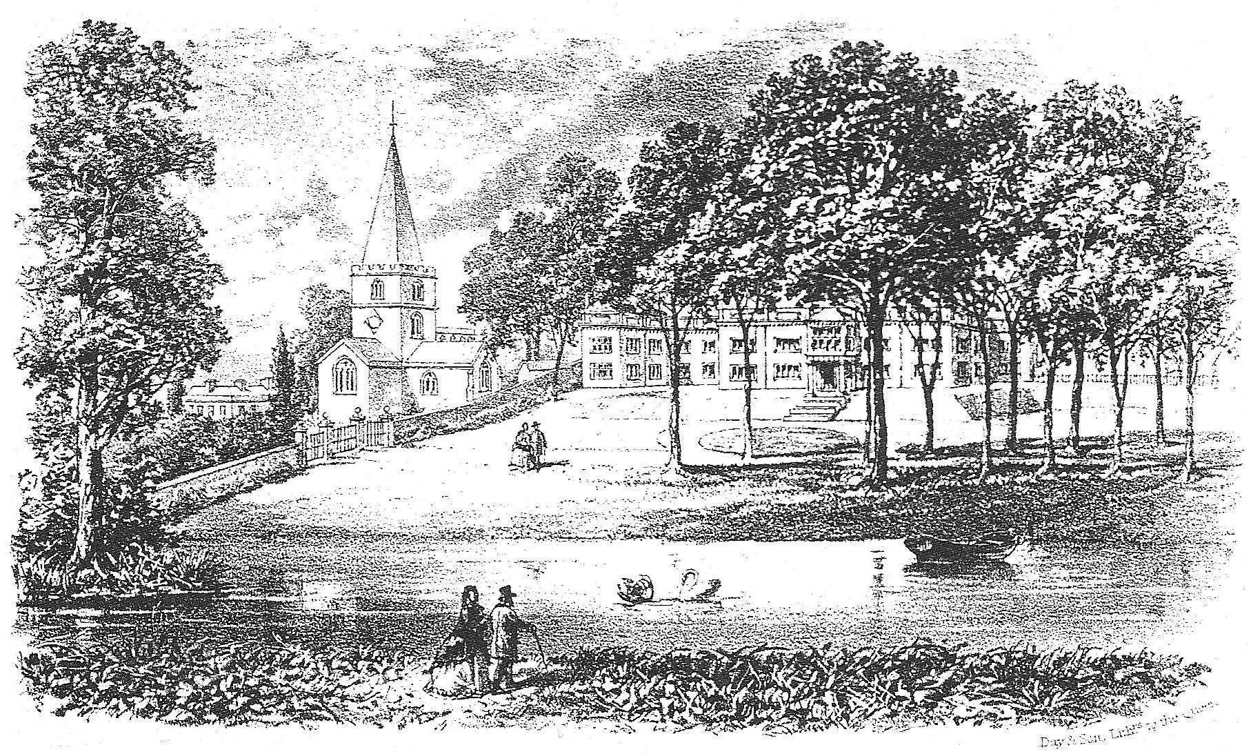 St Mary's Church, Chesham, Buckinghamshire, and the adjacent Upper Parsonage